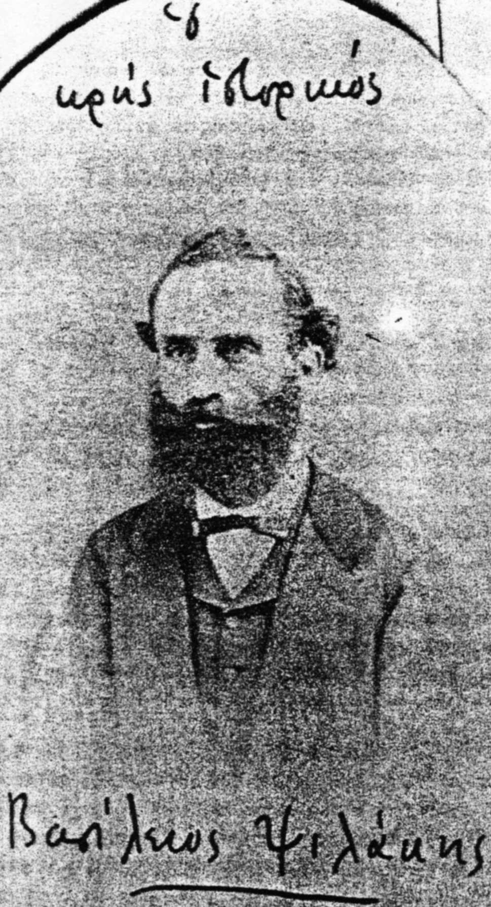 photo portrait of Cretan historian Vasilios Psilakis